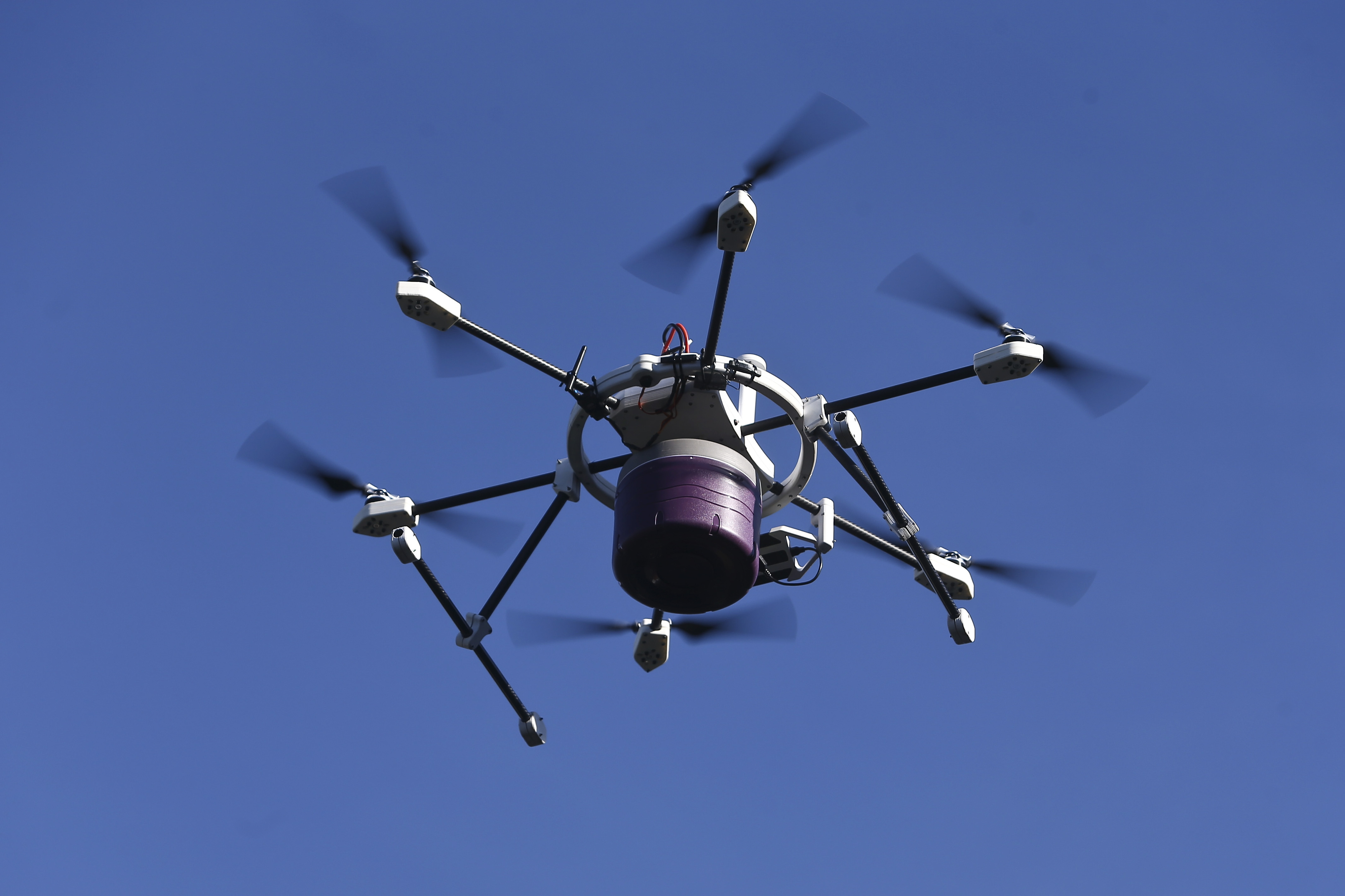 In December 2016 Connect Robotics delivered food for an old men in the mountains of Portugal.